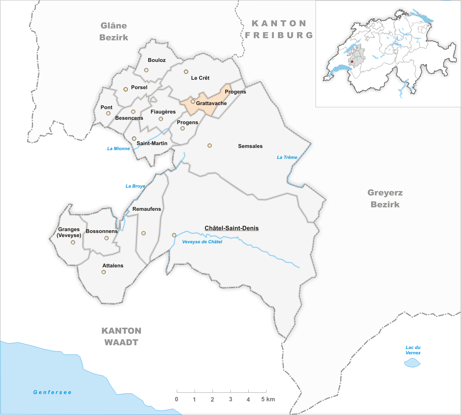 Municipality Grattavache Artist: Tschubby